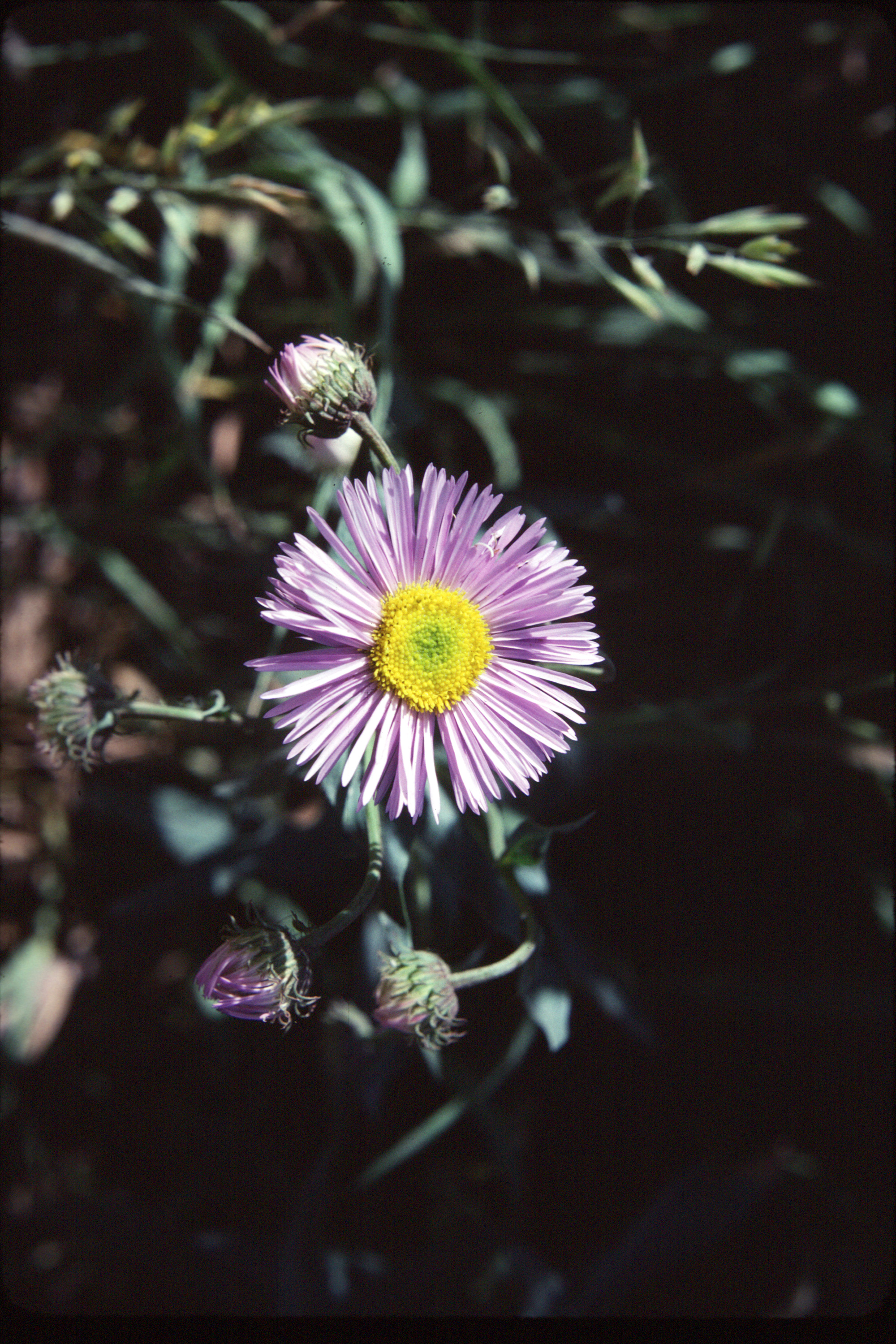 Erigeron subtrinervis at Wind Cave National Park, South Dakota, USA